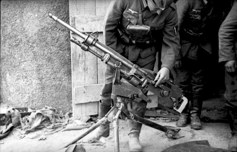 St Etienne Mle 1907 machine gun